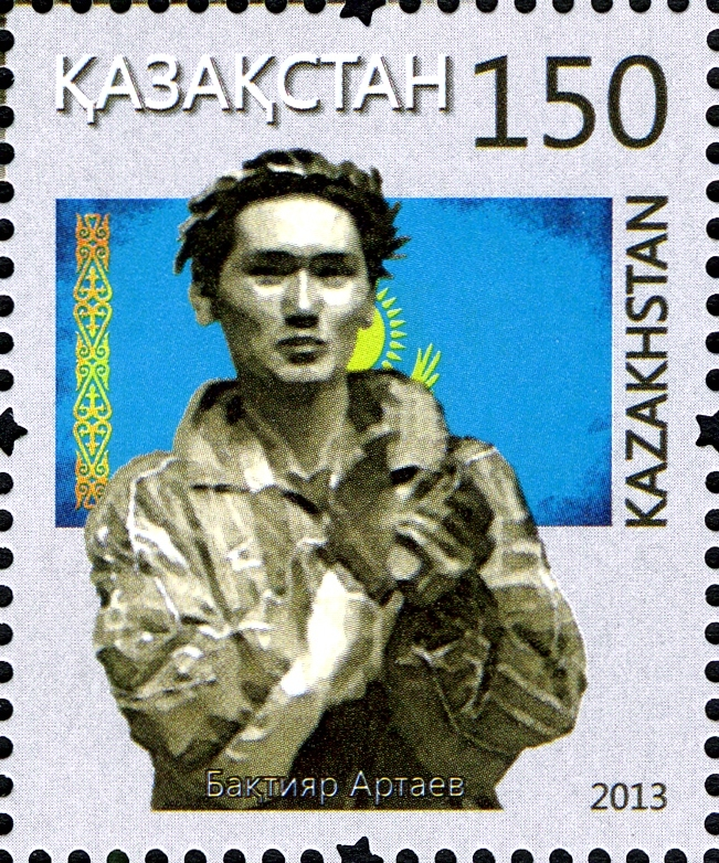 Stamps of Kazakhstan, 2013